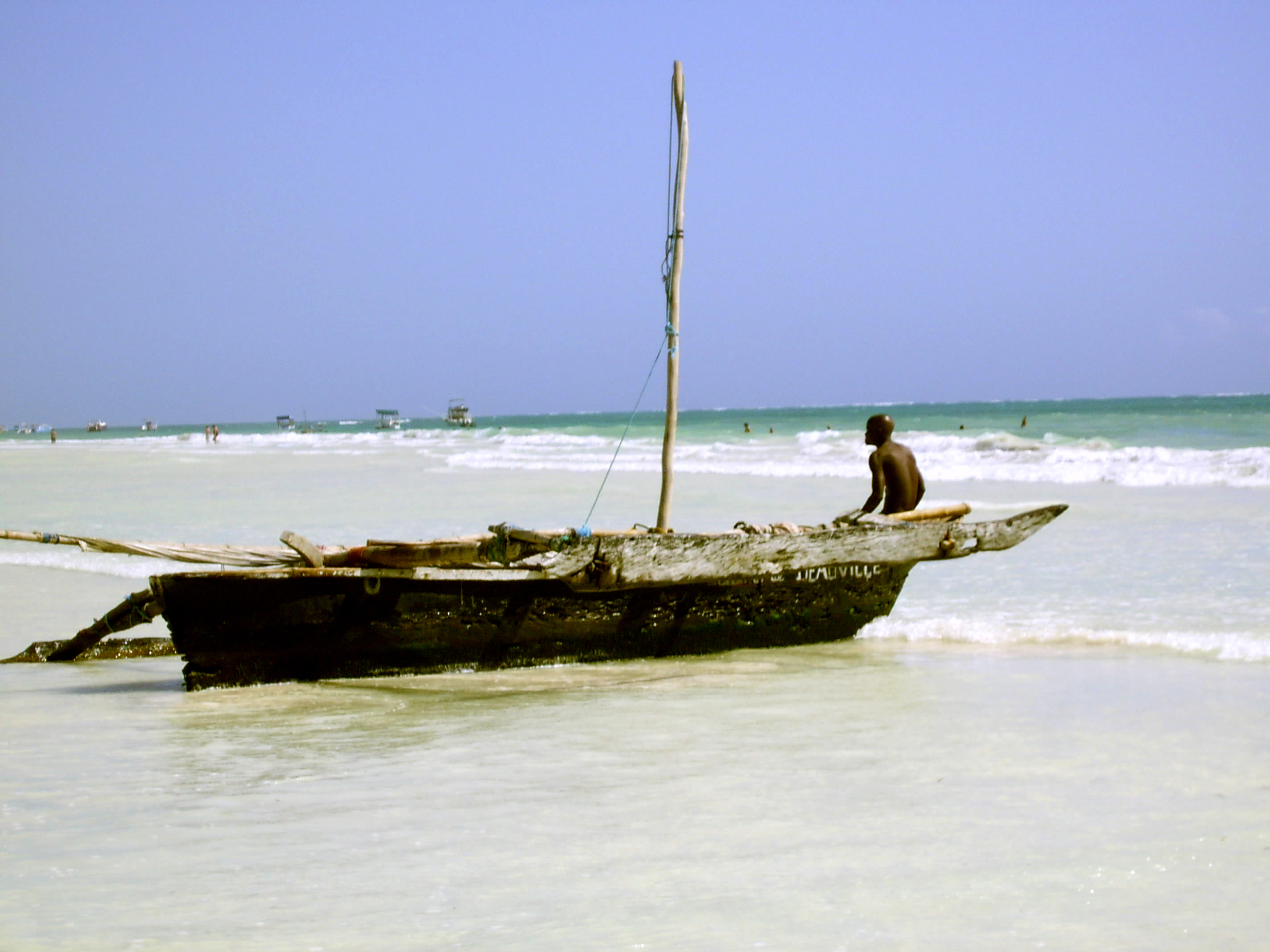 Diani Beach, Kenya